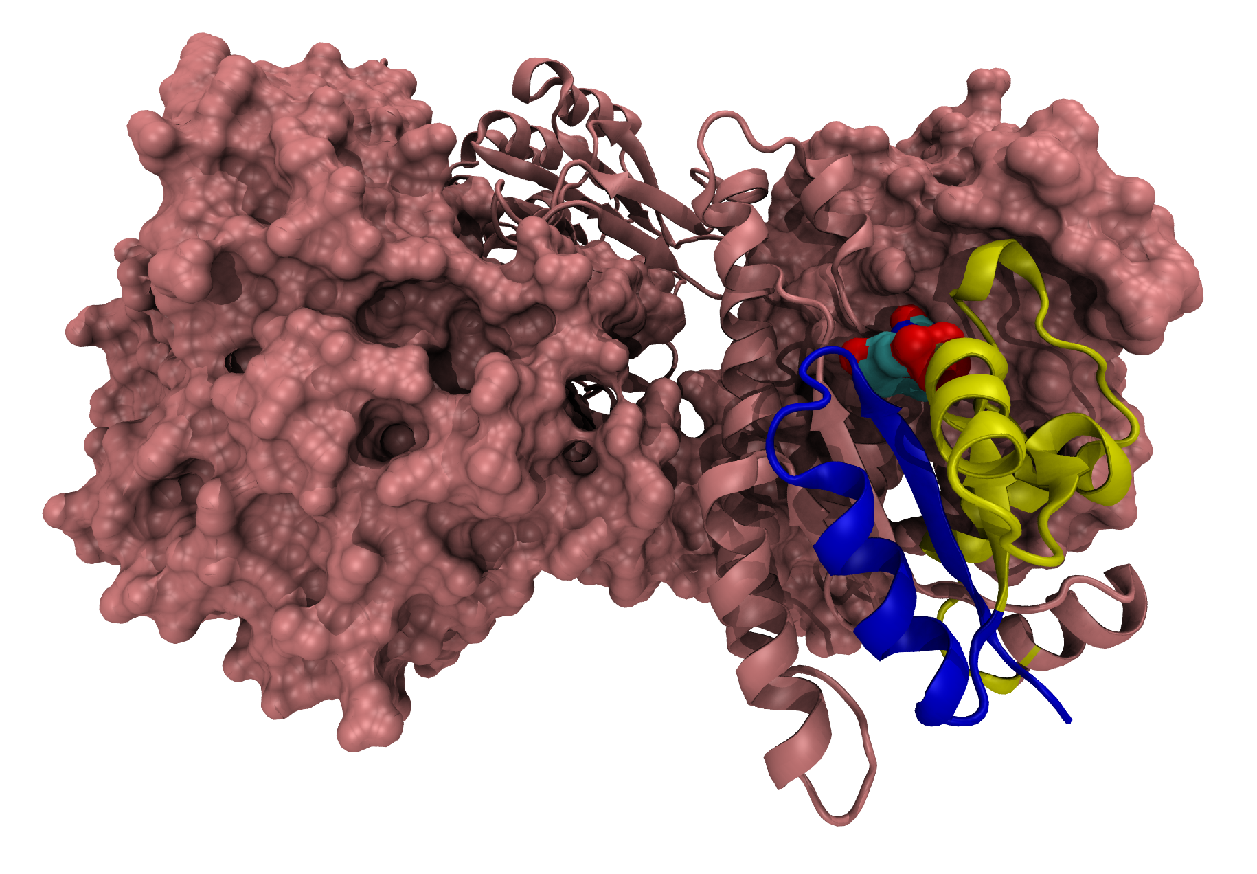 surface/ribbon model of dimer of bifunctional purine biosynthesis protein PURH after PDB 1PKX. The AICAR formyl transferase is rendered yellow and the IMP cyclohydrolase blue. Ref.: Cheong CG, Wolan DW, Greasley SE, Horton PA, Beardsley GP, Wilson IA (April 2004). "Crystal structures of human bifunctional enzyme aminoimidazole-4-carboxamide ribonucleotide transformylase/IMP cyclohydrolase in complex with potent sulfonyl-containing antifolates". J. Biol. Chem. 279 (17): 18034–45. PMID 14966129. This 3D molecular image was created with VMD